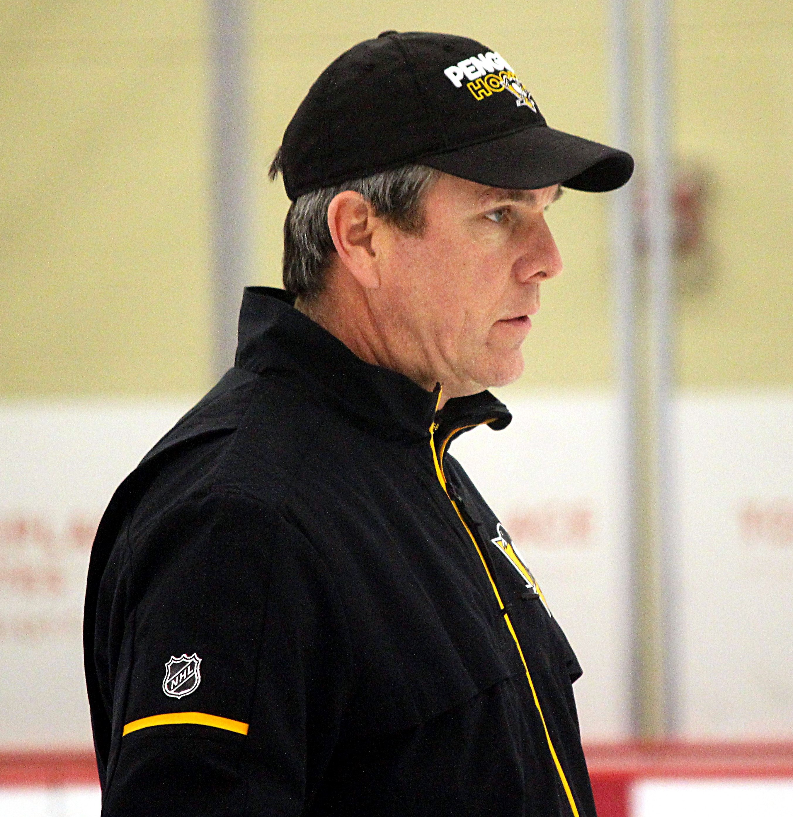 Pittsburgh Penguins head coach Mike Sullivan during practice at UPMC Lemieux Sports Complex in Cranberry Twnshp, PA. Friday, March 2, 2018.